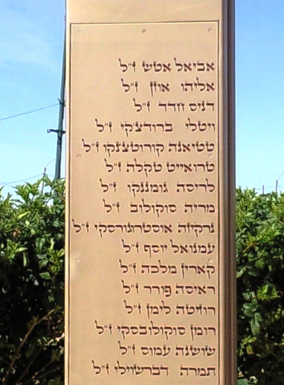 Monument to the sixteen civilians murdered by suicide bombers of Hamas terrorism, in the city of Beer Sheva, Israel, August 31, 2004 : names of the sixteen victims